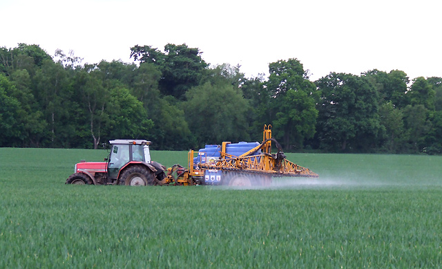 Crop Spraying, Shropshire